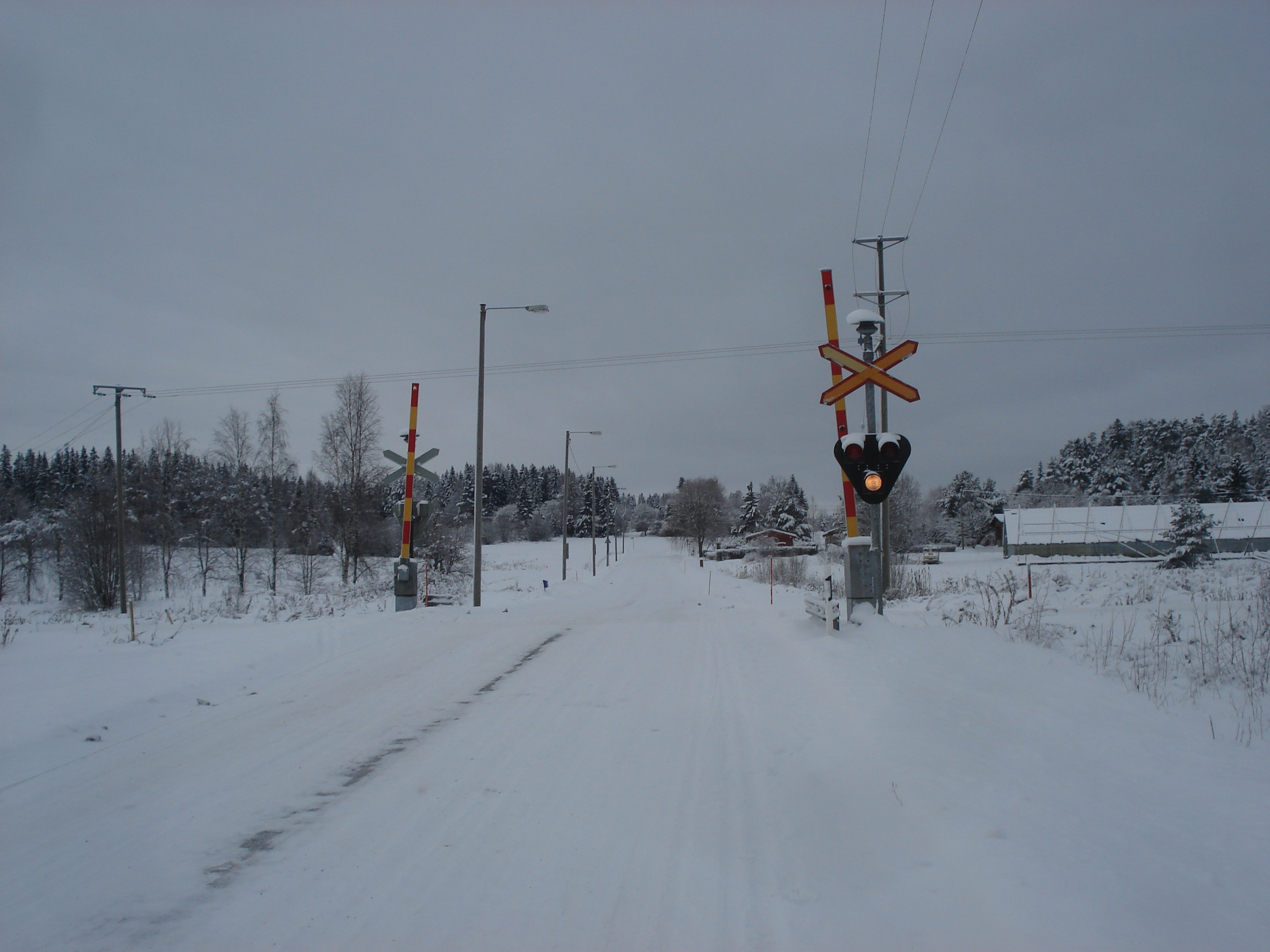 Uusikaupunki Railway between Turku and Uusikaupunki in Finland. Former Piuha railway stop in Masku, Finland.